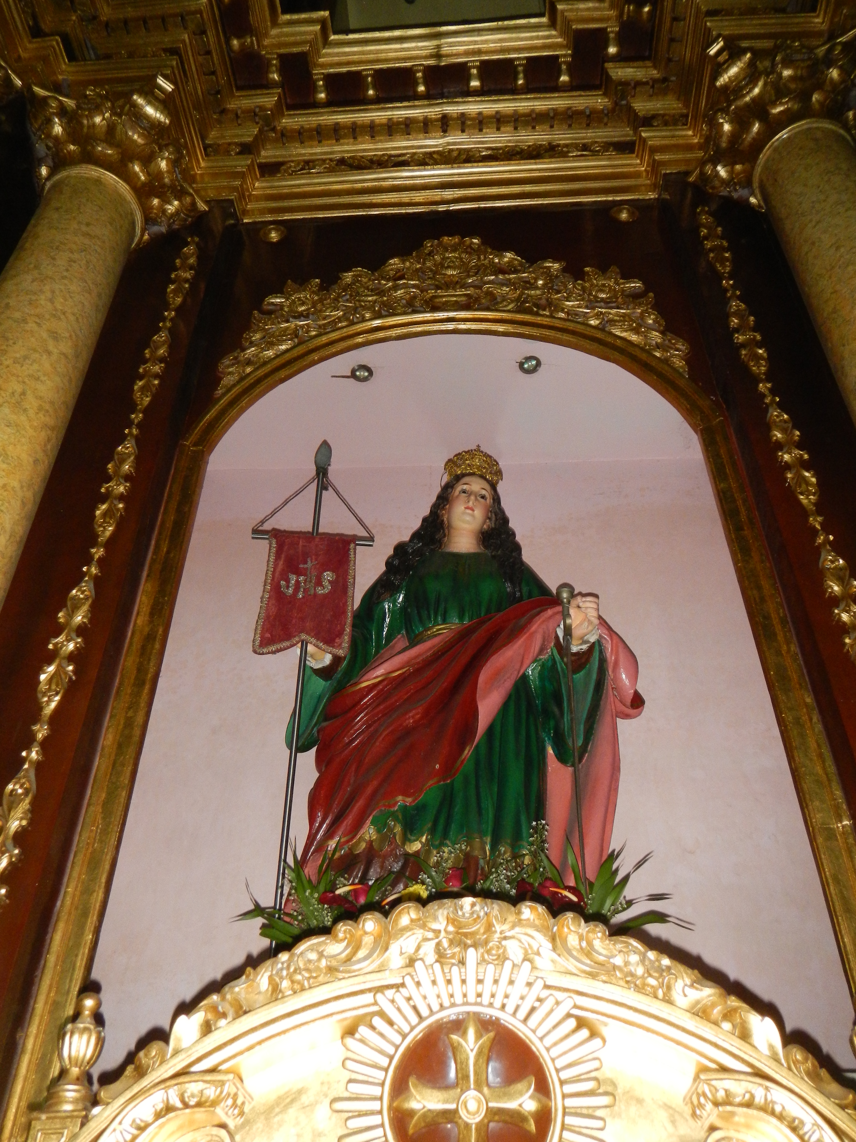 Rare, raw, unedited and original photos of the 1621 Sta. Ursula Parish Church[1]Binangonan, Rizal's major historical landmark is the 200 year-old Santa Ursula Parish Church; this town was separated and became an independent parish in 1621;[2] [3] [4] [5] [6] It belongs to the Roman Catholic Diocese of Antipolo[7] under the Vicariate of St. Jerome, Parish Priest: Rev. Fr. Rodrigo R. Eguia[8] Parochial Vicar: Rev. Fr. Francis M. Sarmiento [9] [10] Binangonan Catholic School is beside this Church and its Parish Rectory, Office.[11] [12] Map of Sta Ursula Parish Binangonan, Rizal 1940 Philippines Sta Ursula Parish Binangonan, Rizal 1940 Philippines is a place located at latitude (14.464903) and longtitude (121.193222) on the map of Philippines [13] Coordinates: 14°27'53"N 121°11'35"E -- Binangonan, Rizal[14] 1st class municipality and belong to district 1 of Rizal province. Binangonan is politically sub-divided into 40 barangays.Website Coordinates: 14°24'53"N 121°11'57"E [15] 'Pugot', other spirits haunt Binangonan mansion 10/30/2012 Giwang Giwang Festival of Binangonan Rizal ---------[N.B. June 2, Sunday day, 2013 Photography of Angono, Rizal[16], Binangonan, Rizal[17] and Cardona, Rizal[18]: 80% cloudy and 20% sunny weather using my Nikon AW 100 waterproof shockproof camera. From Bulacan at 10:45 a.m., I took photo at 12:25 pm of Goldenhills Jewelry of Antonio Z. Atienza, Jr.[19] in Robinsons Ortigas; and reached Angono, Rizal junction, crossing at 2:06 pm, then took photos of Binangonan Municipal Hall at 2:44 pm; I finished Cardona, Rizal photography at 5:17 p.m., and arrived at Bulacan at 9:30 pm after 3+ hours of travel by bus, and started uploading via slow internet at 9:50 pm - I hereby certify that these rarest, raw, original and unedited photos are exclusive for Commons and Wikipedia never uploaded in any Internet or any site, and for the public domain without any condition.]